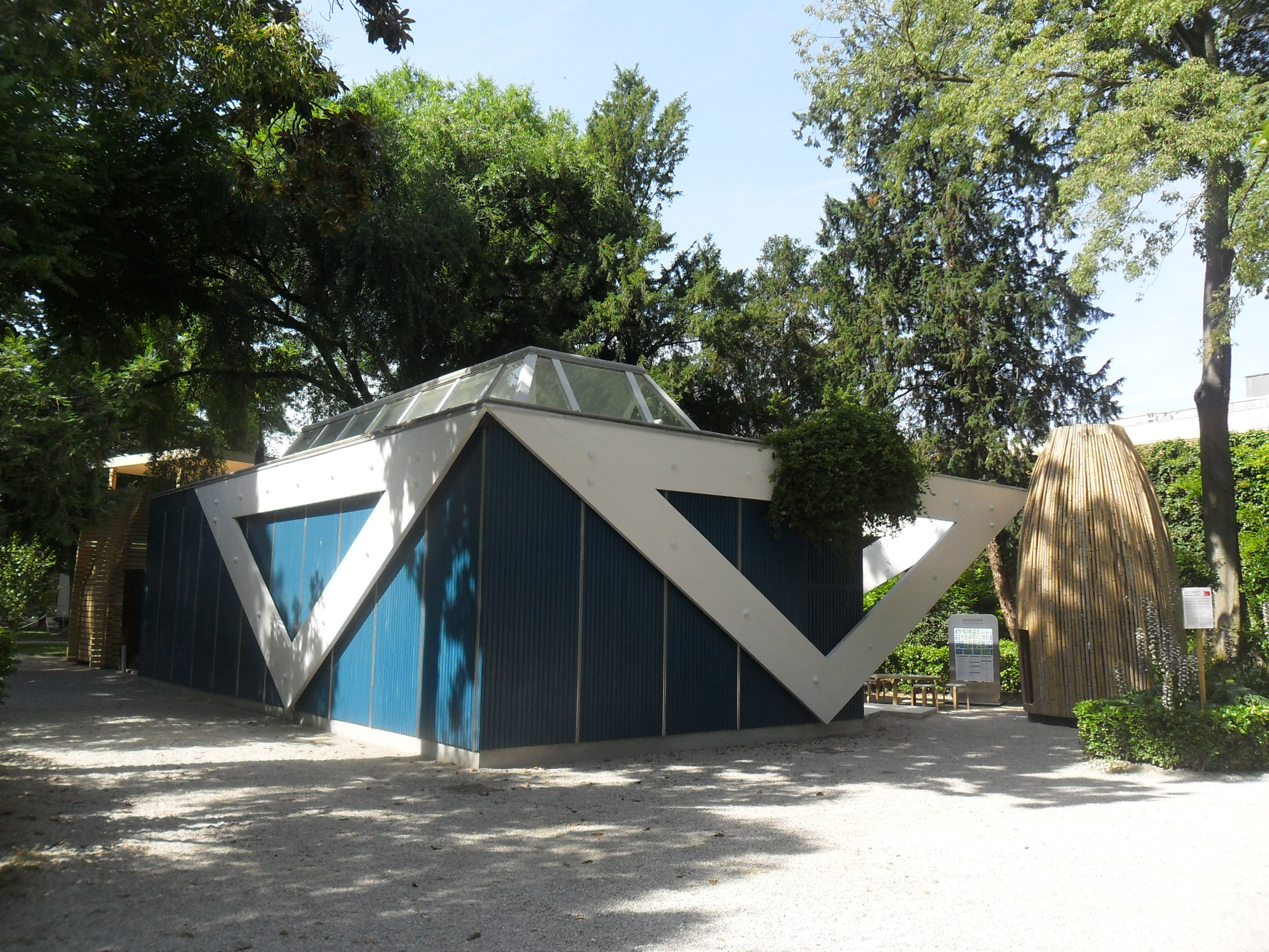 The Finnish Pavilion, Biennale di Venezia by Alvar Aalto